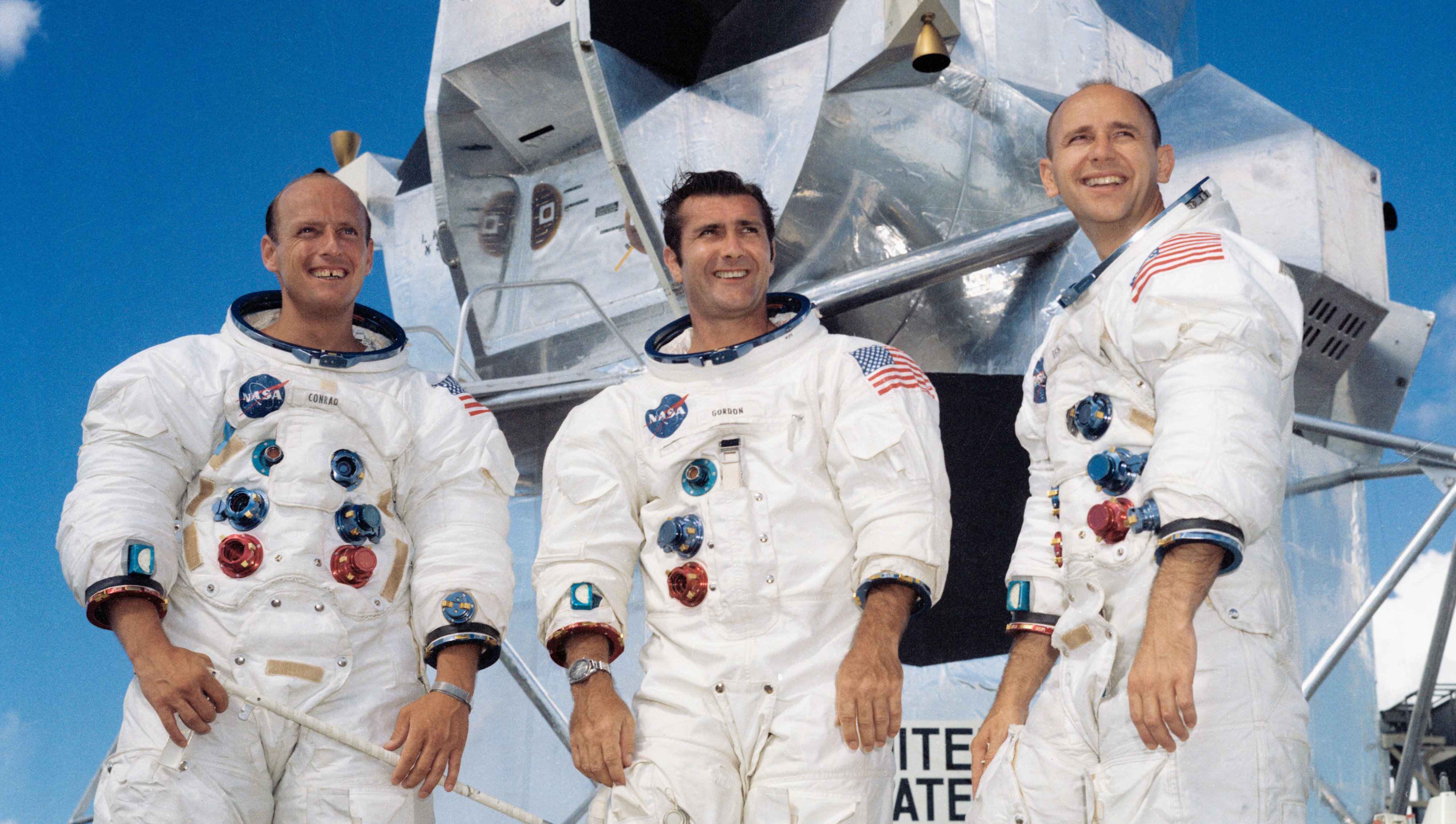 Portrait of the prime crew of the Apollo 12 lunar landing mission. From left to right they are: Commander, Charles "Pete" Conrad Jr.; Command Module pilot, Richard F. Gordon Jr.; and Lunar Module pilot, Alan L.Bean. The Apollo 12 mission was the second lunar landing mission in which the third and fourth American astronauts set foot upon the Moon. This mission was highlighted by the Lunar Module nicknamed "Intrepid" landing within a few hundred yards of a Surveyor probe which was sent to the Moon in April of 1967 on a mapping mission as a precursor to landing.